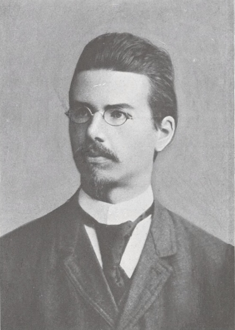 The Austrian Chemist Fridrich Reinitzer